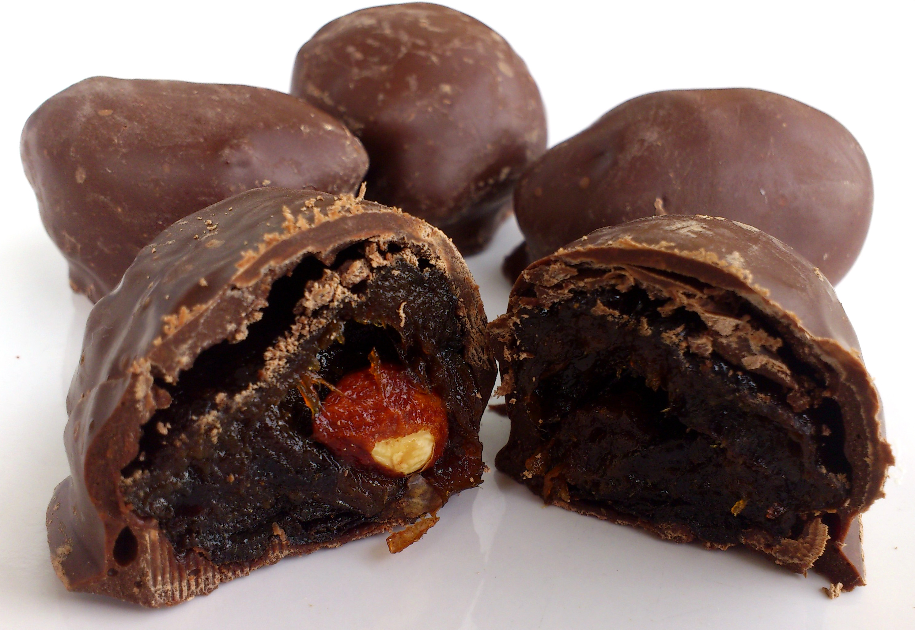 Chocolate-coated dried plum with an almond (Russian confectionery)